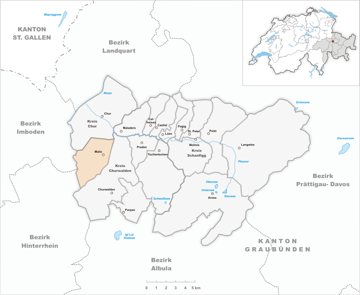 Municipality Malix